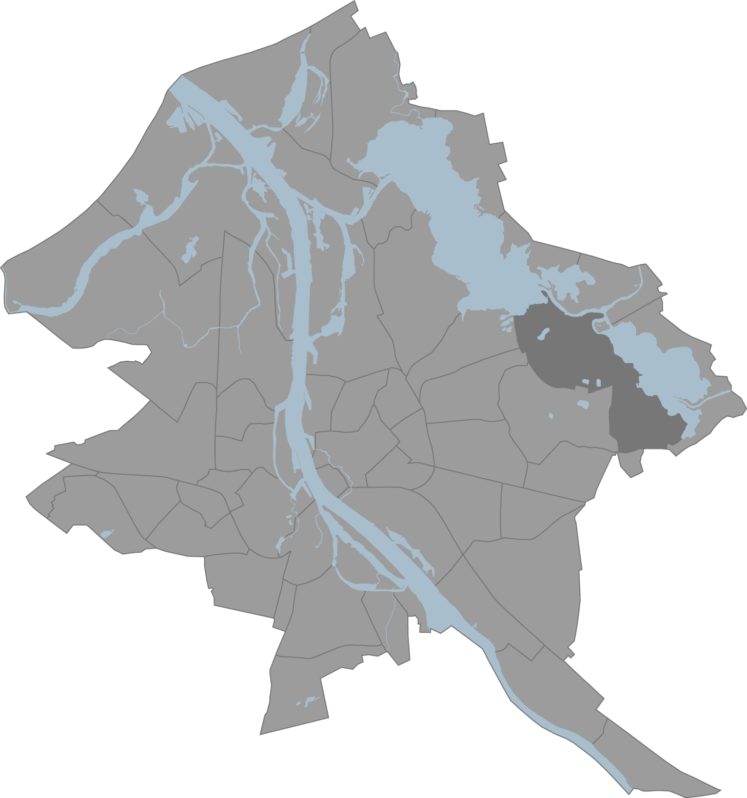 A map of Riga, Latvia with the eponymous commune highlighted